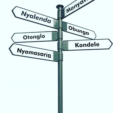 Kondele networks